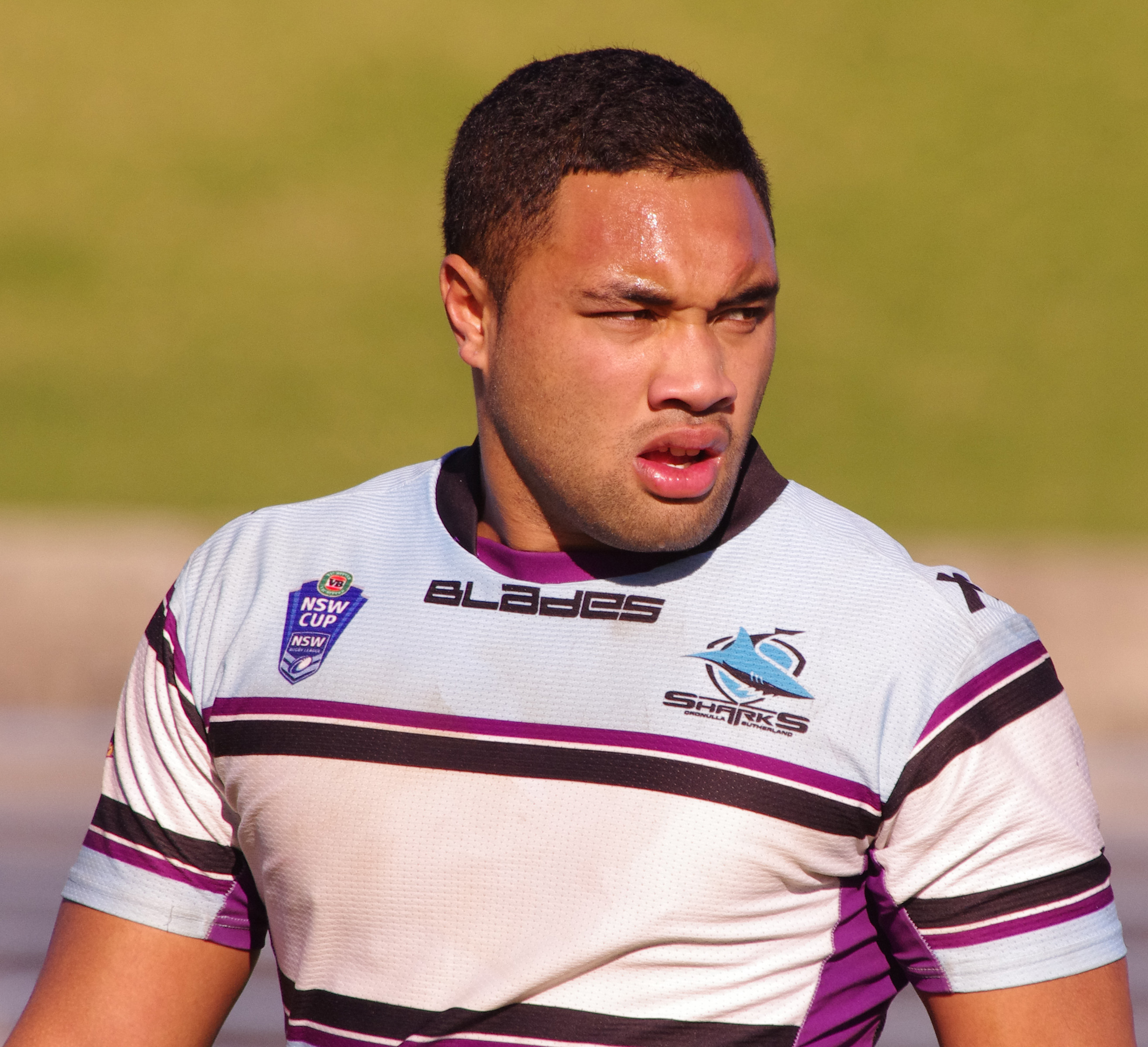 Tupou Sopoaga